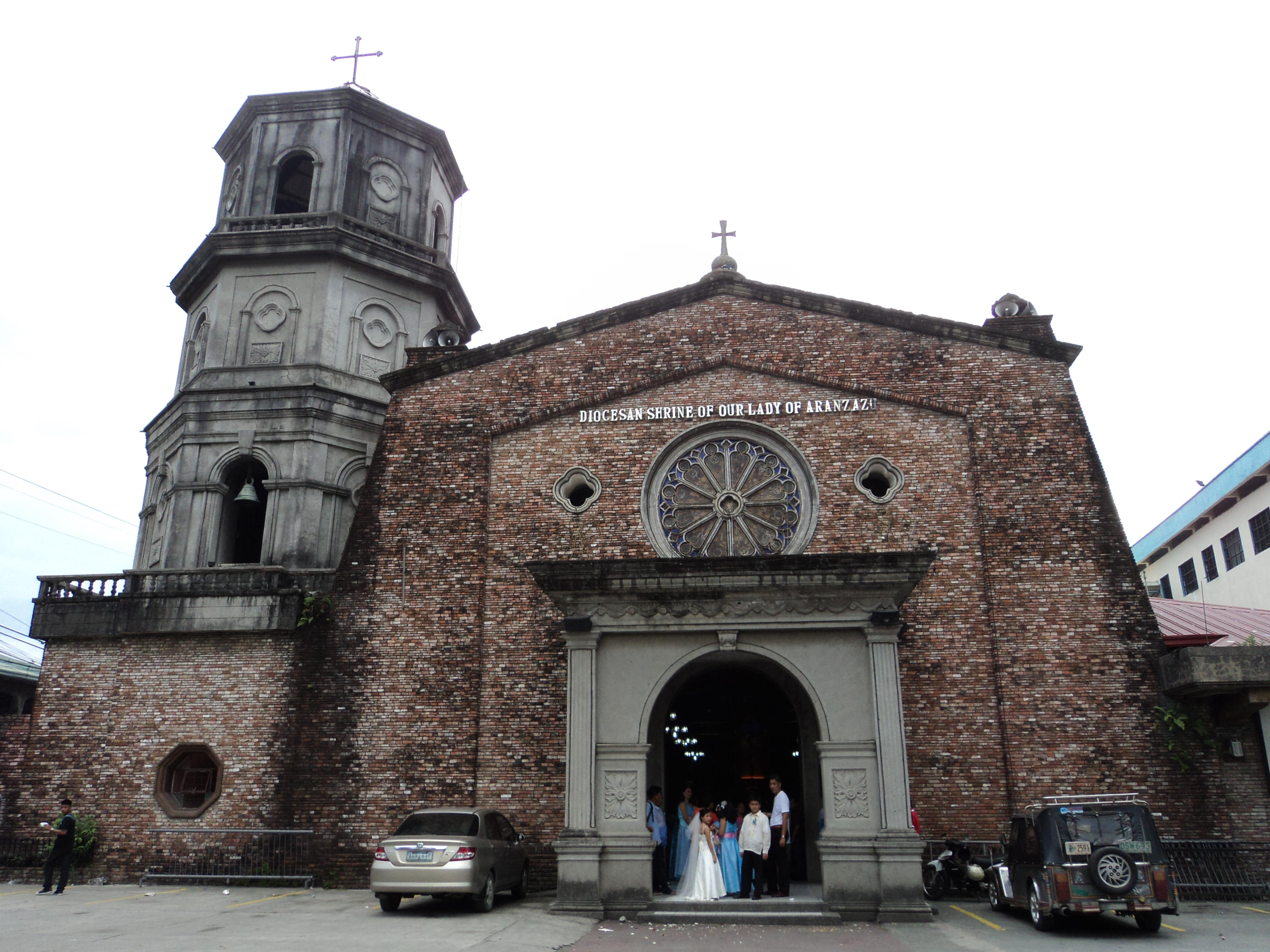 The Diocesan Shrine of Our Lady of Aranzazu in San Mateo, Rizal, Philippines.